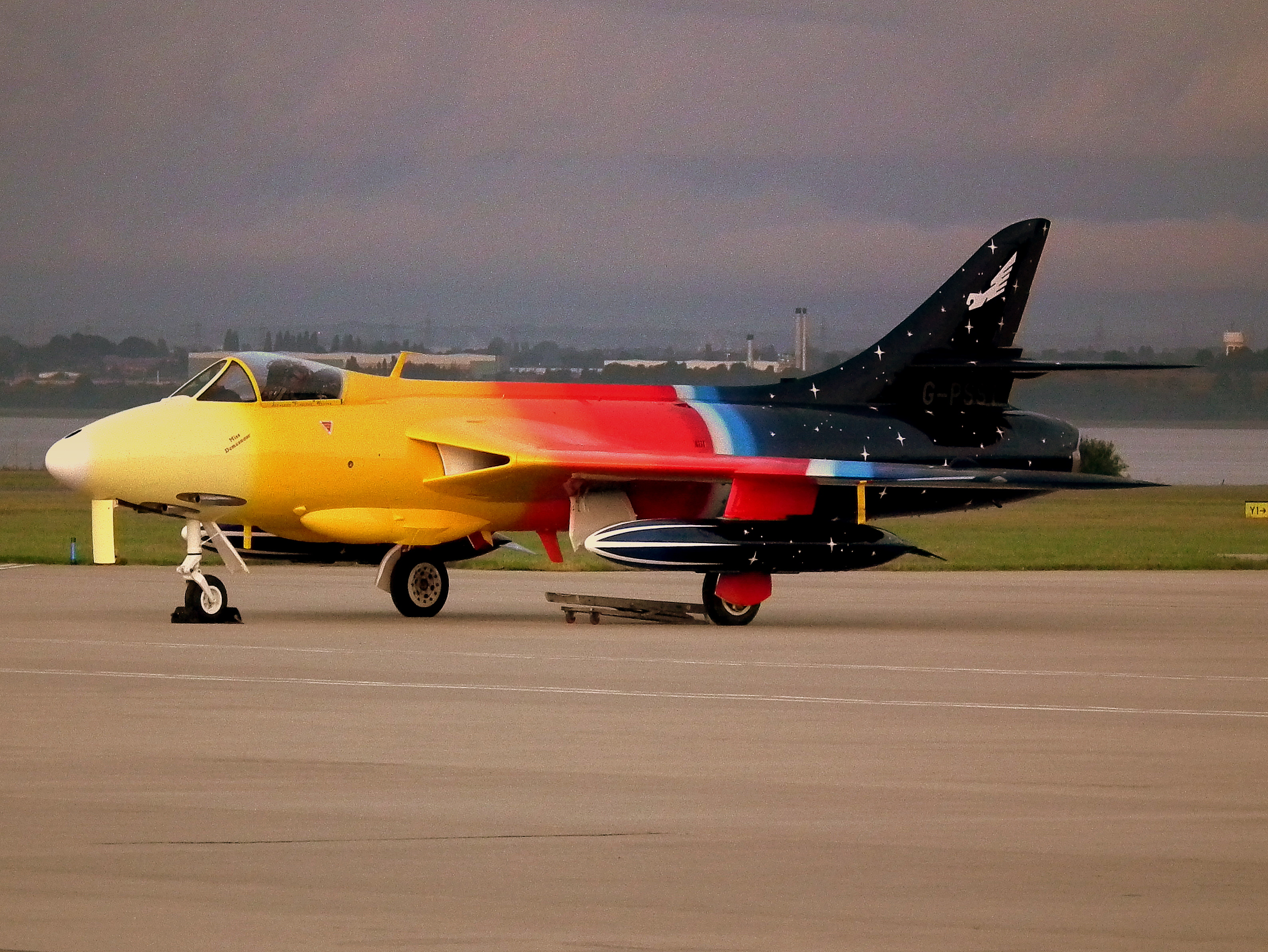 LIVERPOOL JOHN LENNON AIRPORT HUNTER F9 JULY 2011